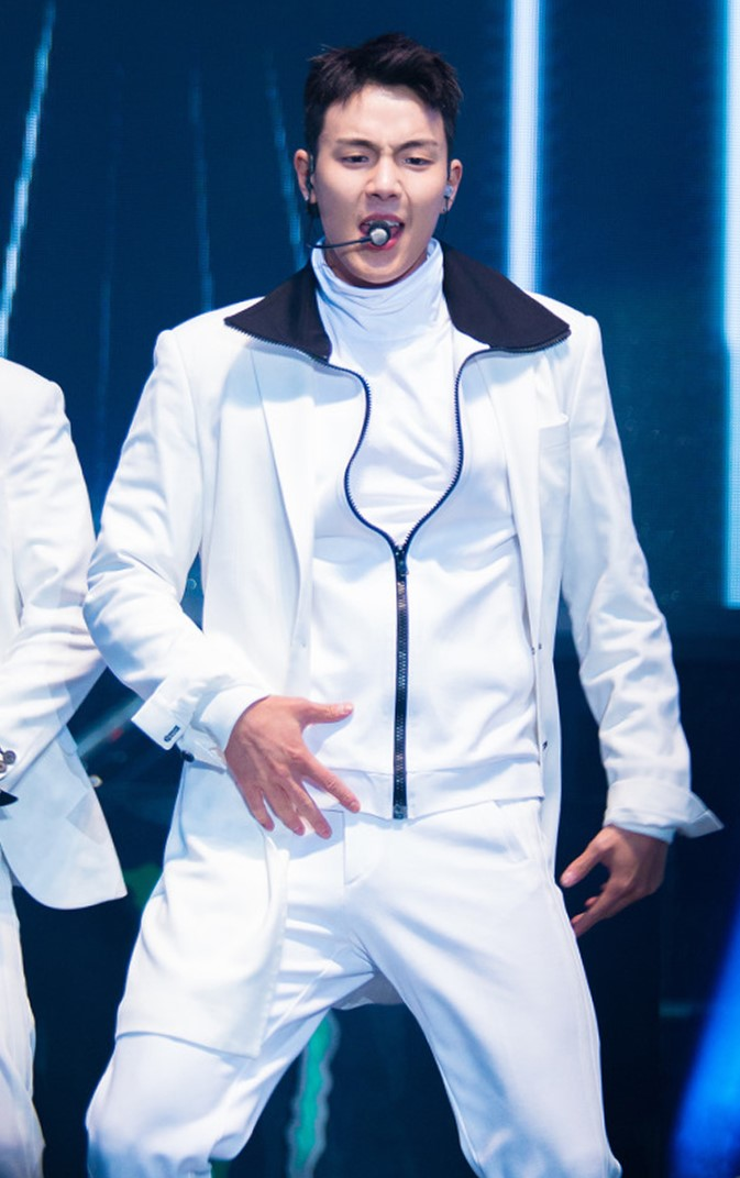 Shownu at Jamsil Handball Gymnasium in Seoul on April 13, 2019.